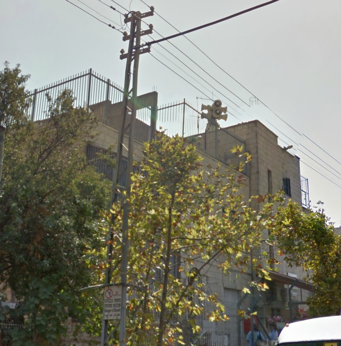 Electronic Air-Raid Siren in Jerusalem, Israel